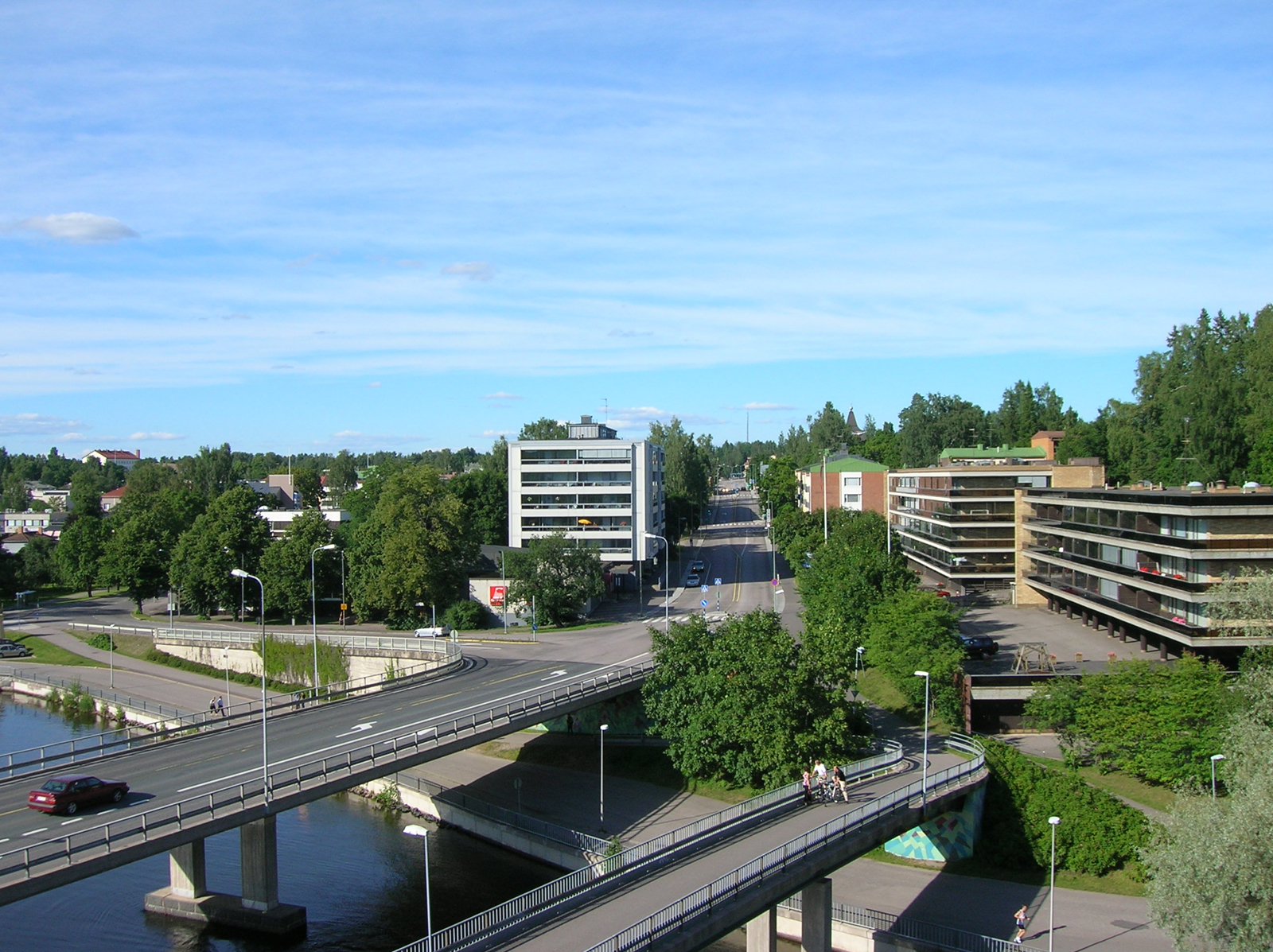 A view of central Heinola, Finland